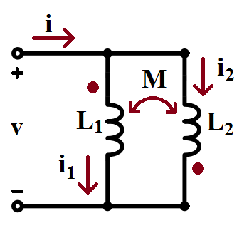 Two Inductors in parallel mutually opposing